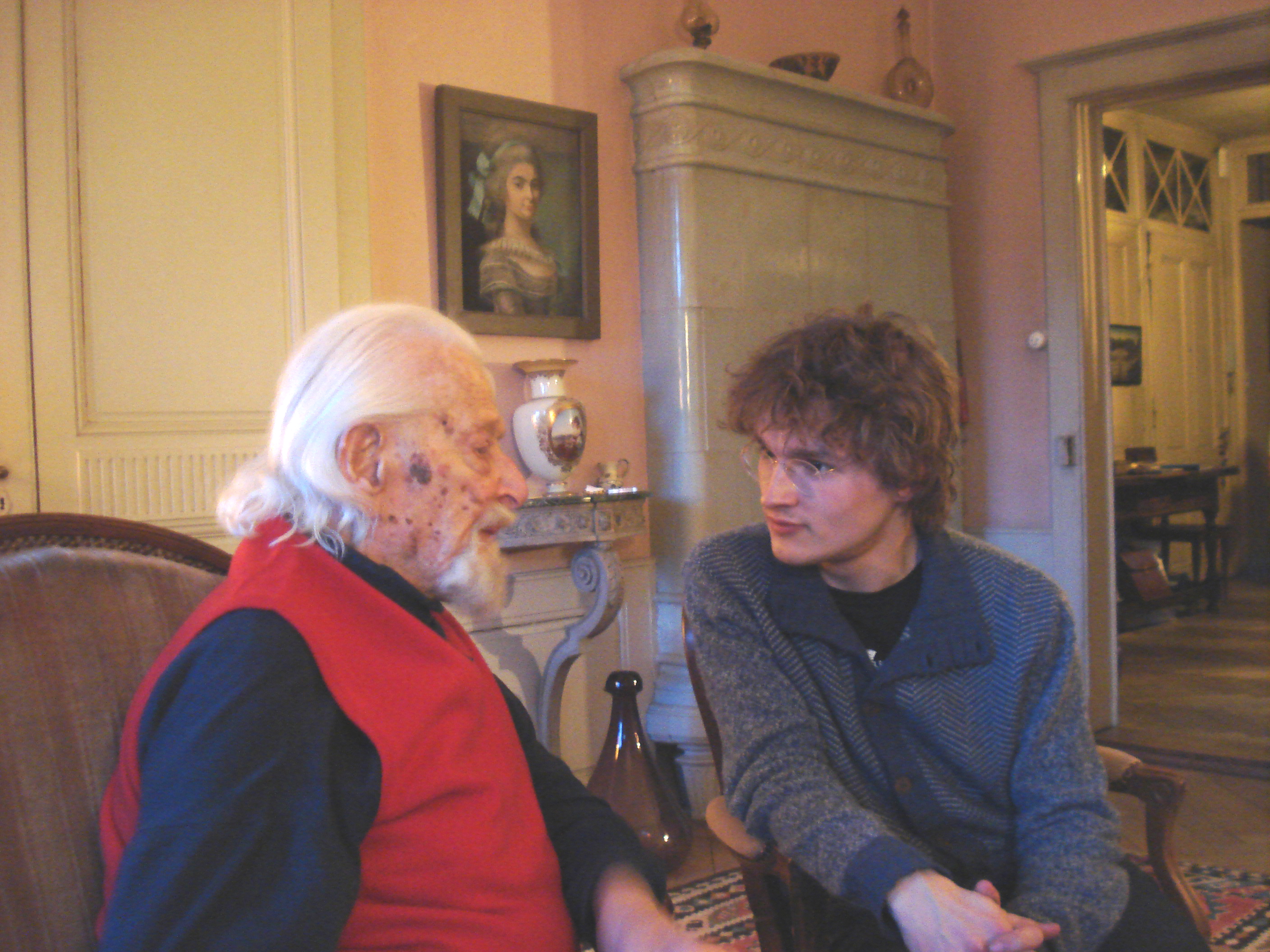 Swiss opera singer Hugues Cuénod (107) with dutch violinist Jeroen van der Wel at his apartment in Vevey, 22 February 2010